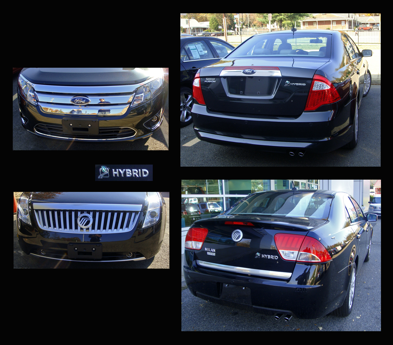 Photo arrangement showing the exterior differences between the siblings Ford Fusion Hybrid and Mercury Milan Hybrid (the powertrain is the same, and the interior only has minor differences), Alexandria, Virgina, USA